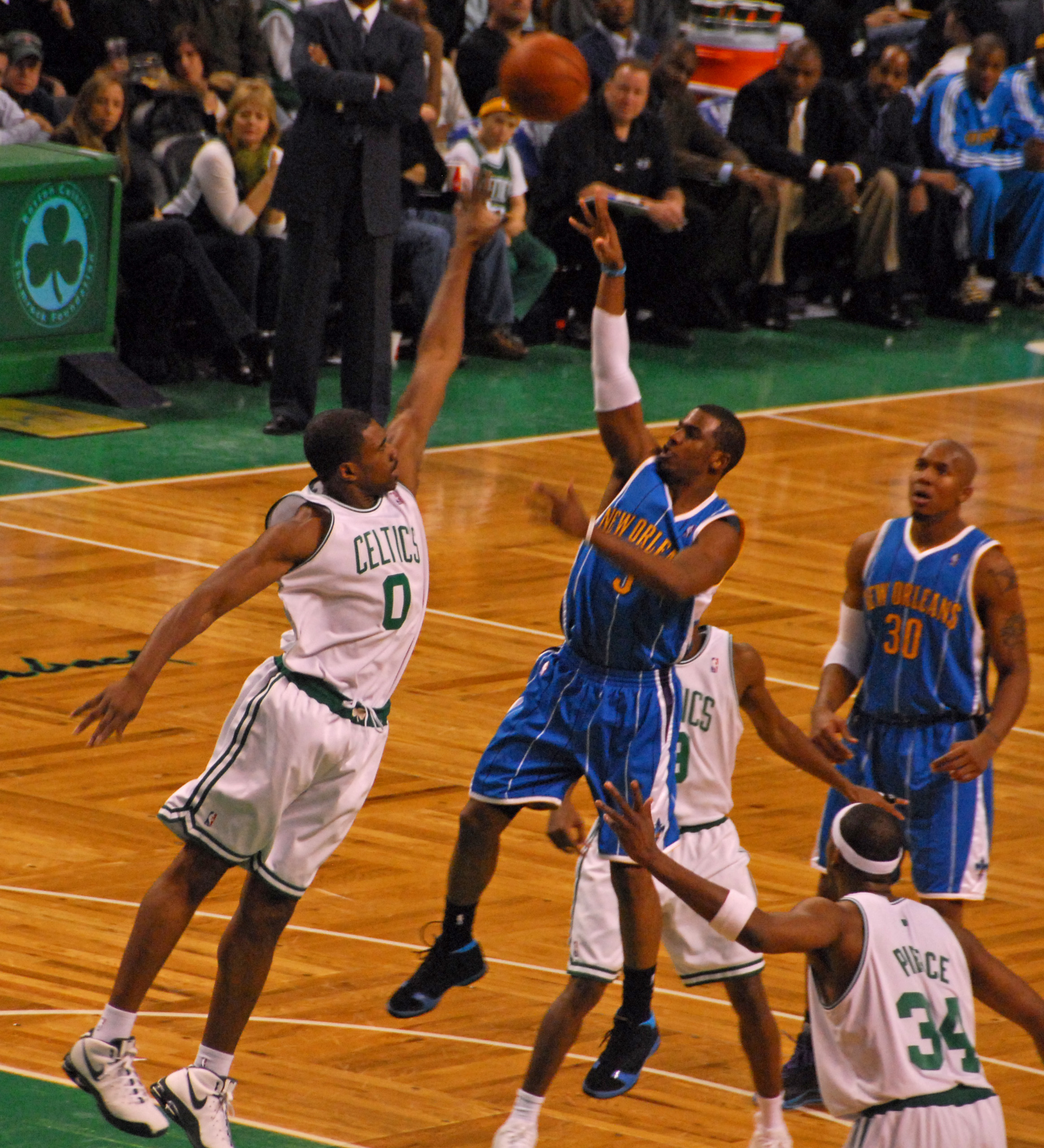 Chris Paul of the New Orleans Hornets shooting over Leon Powe.